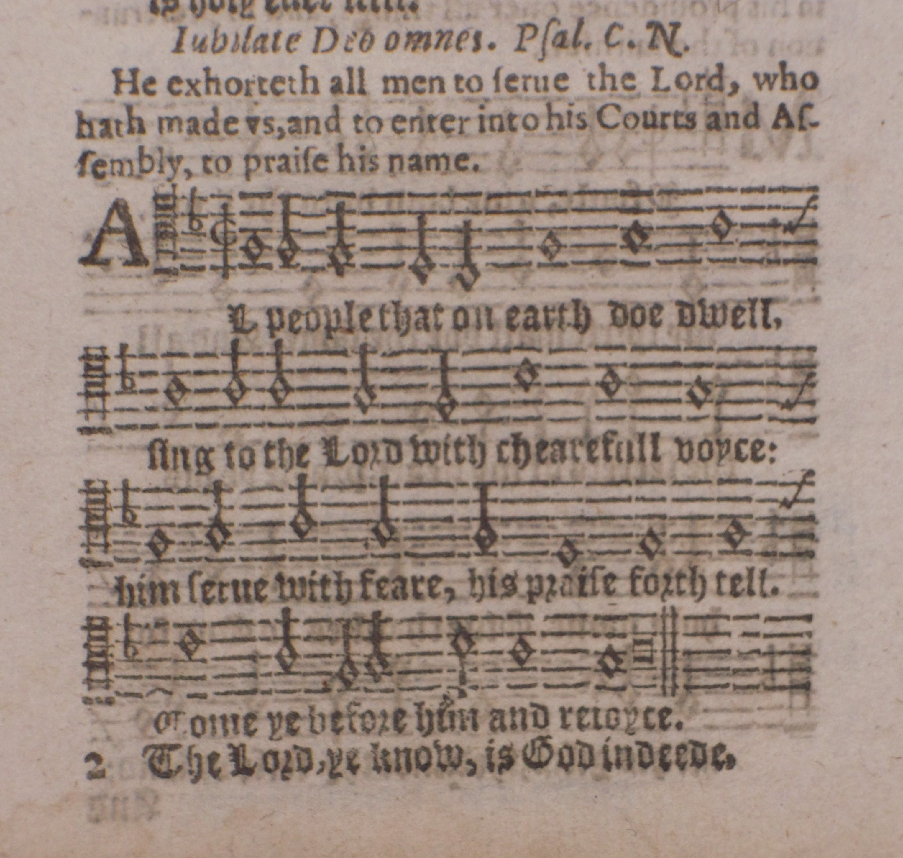 Old metrical setting of the Hundredth Psalm from a 1628 printing of the Sternhold & Hopkins Psalter.